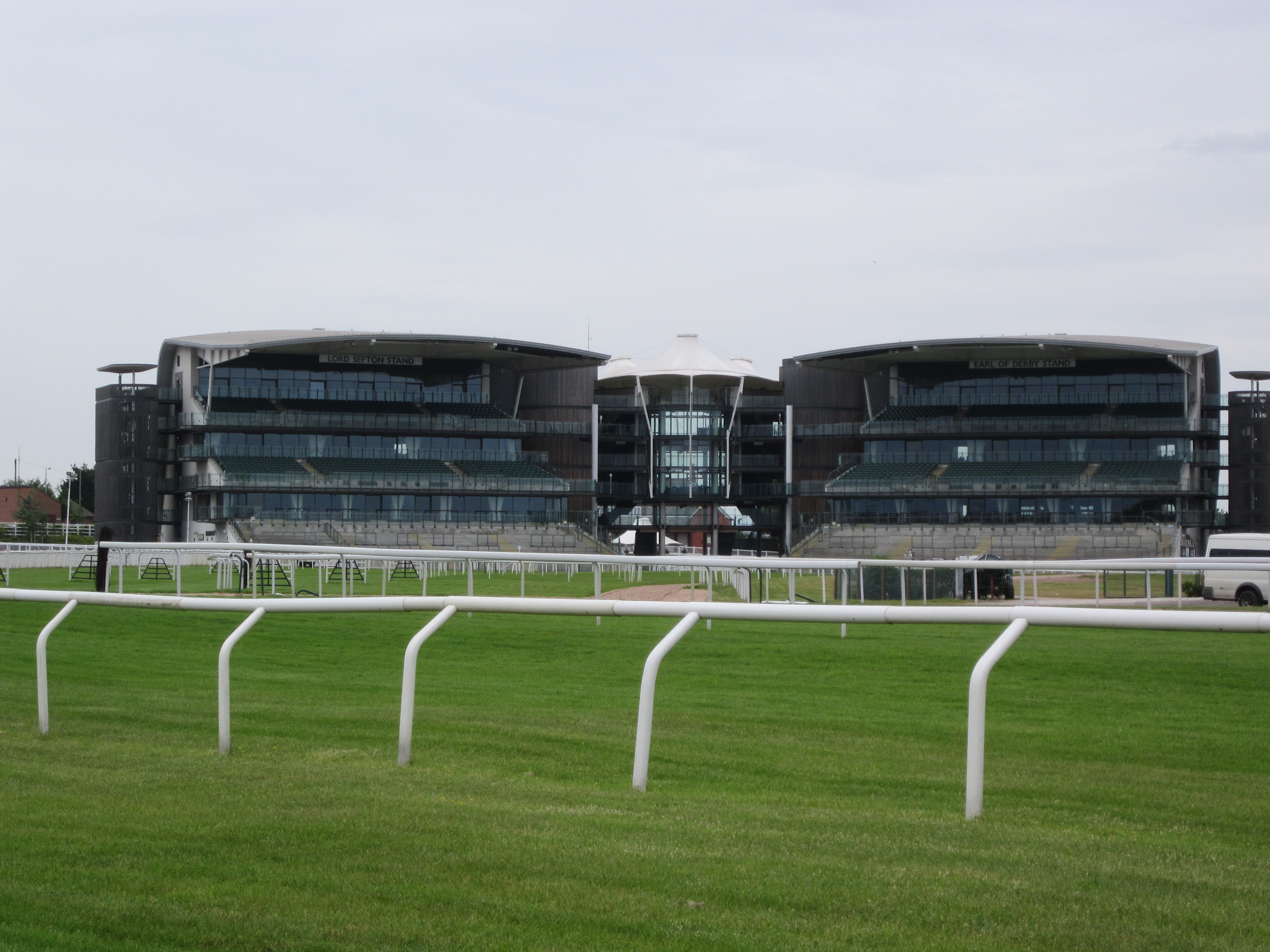 View of Aintree Racecourse from The Melling Road, Merseyside, England.